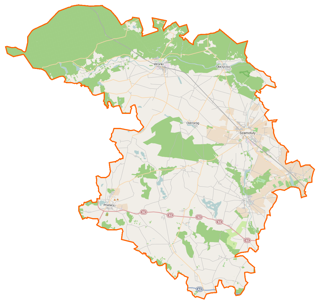 Map of Powiat szamotulski, Poland This map of Powiat szamotulski was created from OpenStreetMap project data, collected by the community. This map may be incomplete, and may contain errors. Don't rely solely on it for navigation. Border coordinates52.801116.0009←↕→16.748752.3668